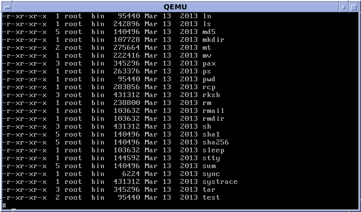 A long file listing with "ls -l" in OpenBSD 5.3. Running in a QEMU VM.